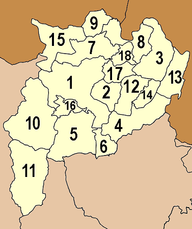 Map of the province Chiang Rai (Thailand) with the districts (Amphoe) numbered. Mueang Chiang Rai (เมืองเชียงราย) Wiang Chai (เวียงชัย) Chiang Khong (เชียงของ) Thoeng (เทิง) Phan (พาน) Pa Daet (ป่าแดด) Mae Chan (แม่จัน) Chiang Saen (เชียงแสน) Mae Sai (แม่สาย) Mae Suai (แม่สรวย) Wiang Pa Pao (เวียงป่าเป้า) Phaya Mengrai (พญาเม็งราย) Wiang Kaen (เวียงแก่น) Khun Tan (ขุนตาล) Mae Fa Luang (แม่ฟ้าหลวง) Mae Lao (แม่ลาว) Wiang Chiang Rung (King Amphoe) (เวียงเชียงรุ้ง) Doi Luang (King Amphoe) (ดอยหลวง)